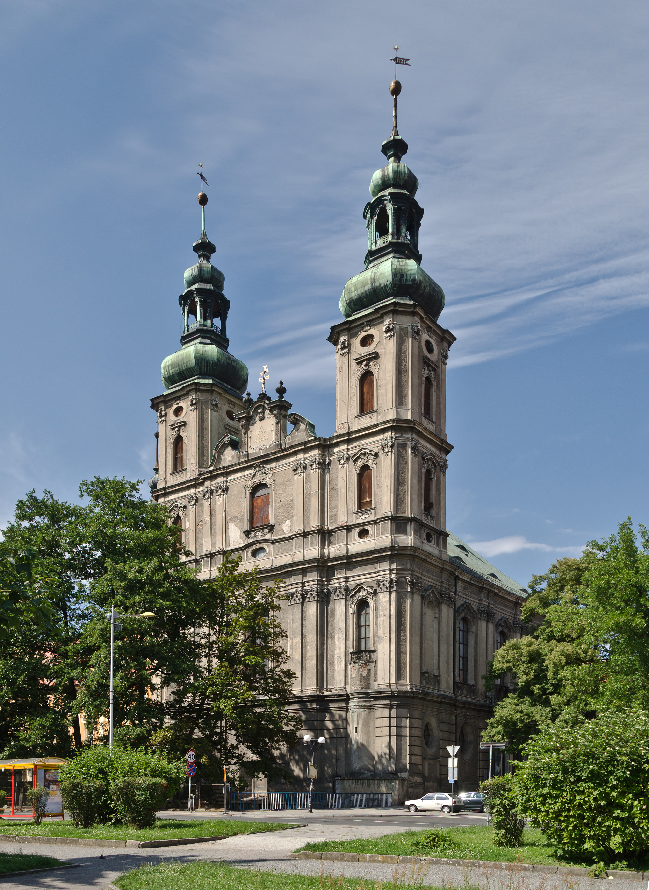 Saints Peter and Paul church in Nysa